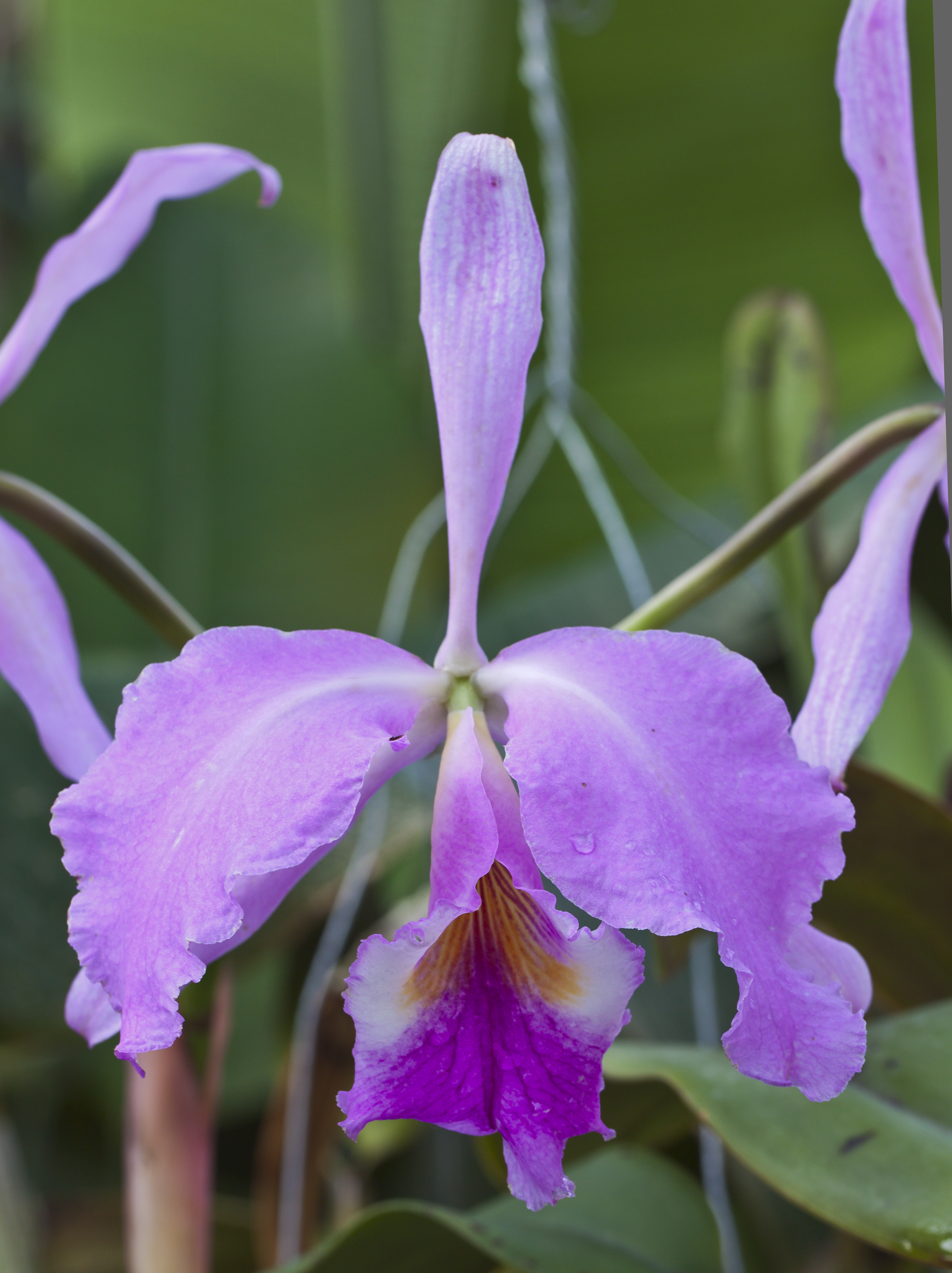 Cattleya labiata, Jardín Botánico de Múnich, Alemania